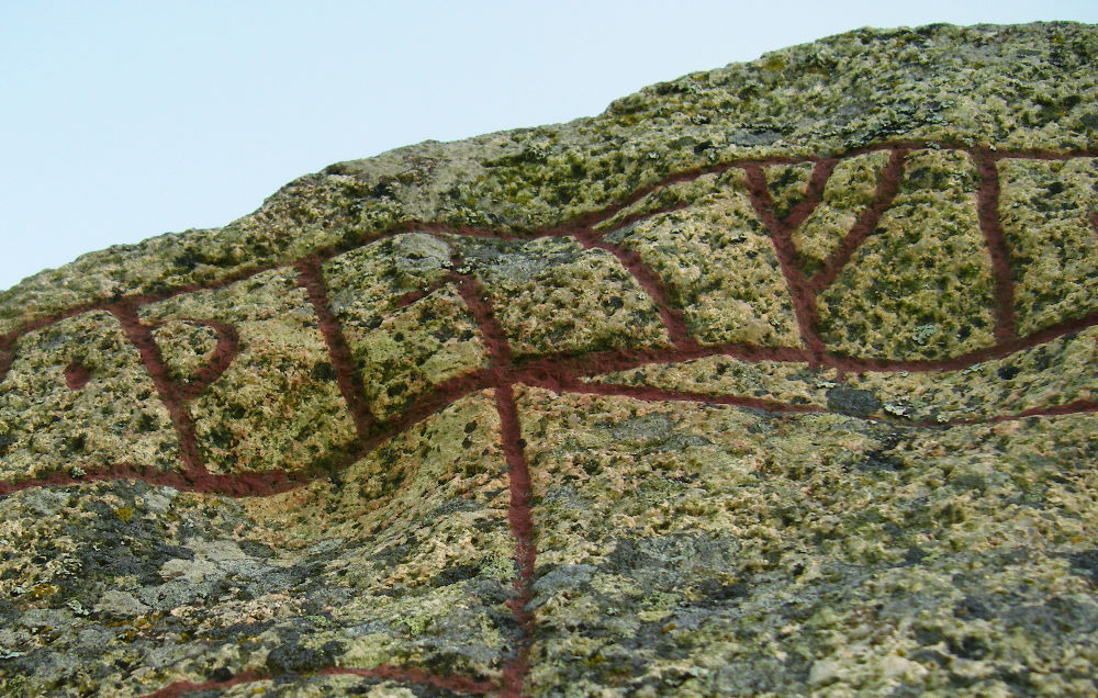 runic stone Upplands runinskrifter 875 detail